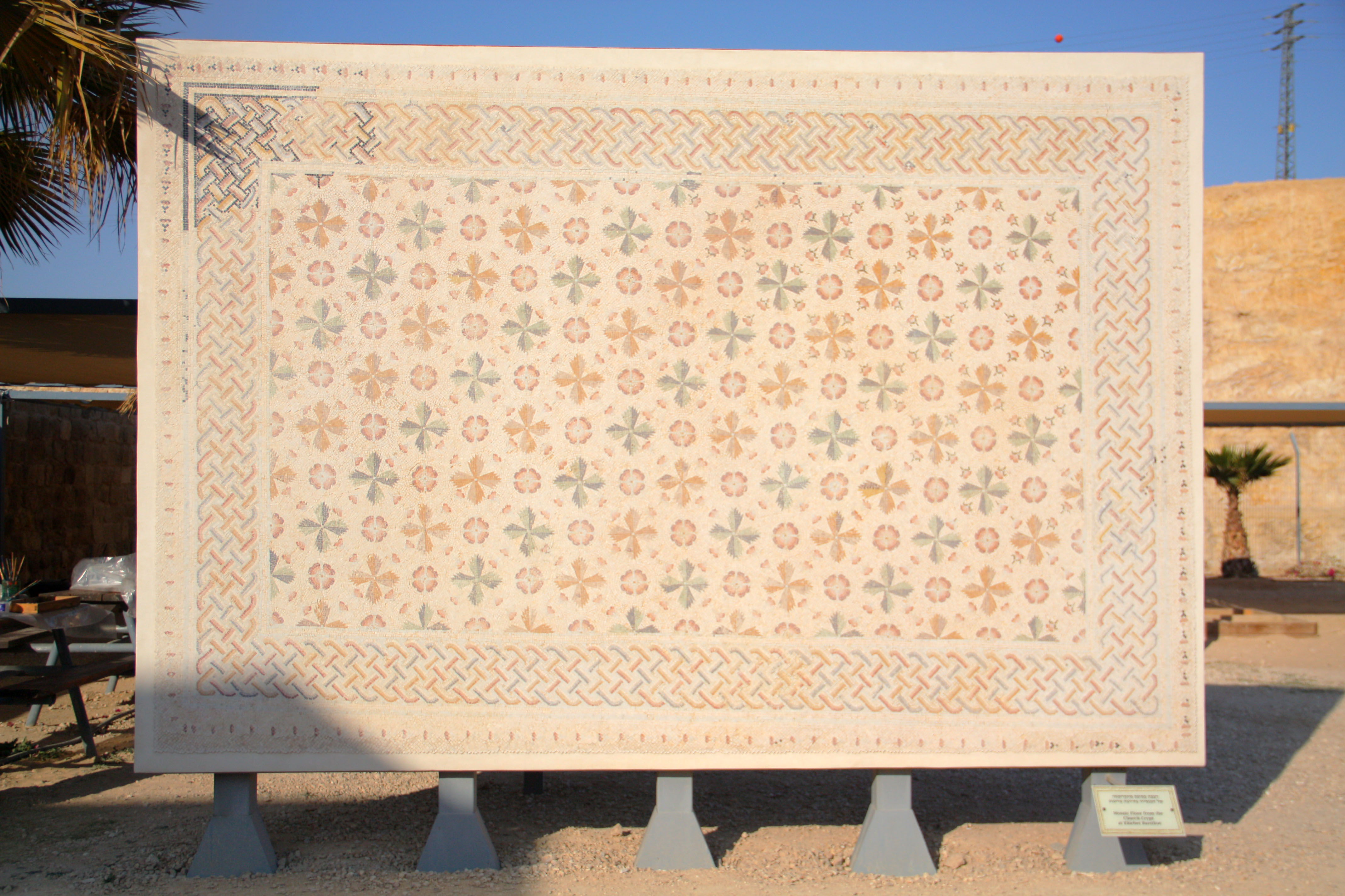 Mosaic of Khirbet Brechot, Good Samaritan Inn